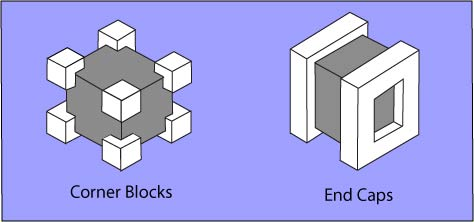 Drawing by R L Sheehan for article on Cushioning